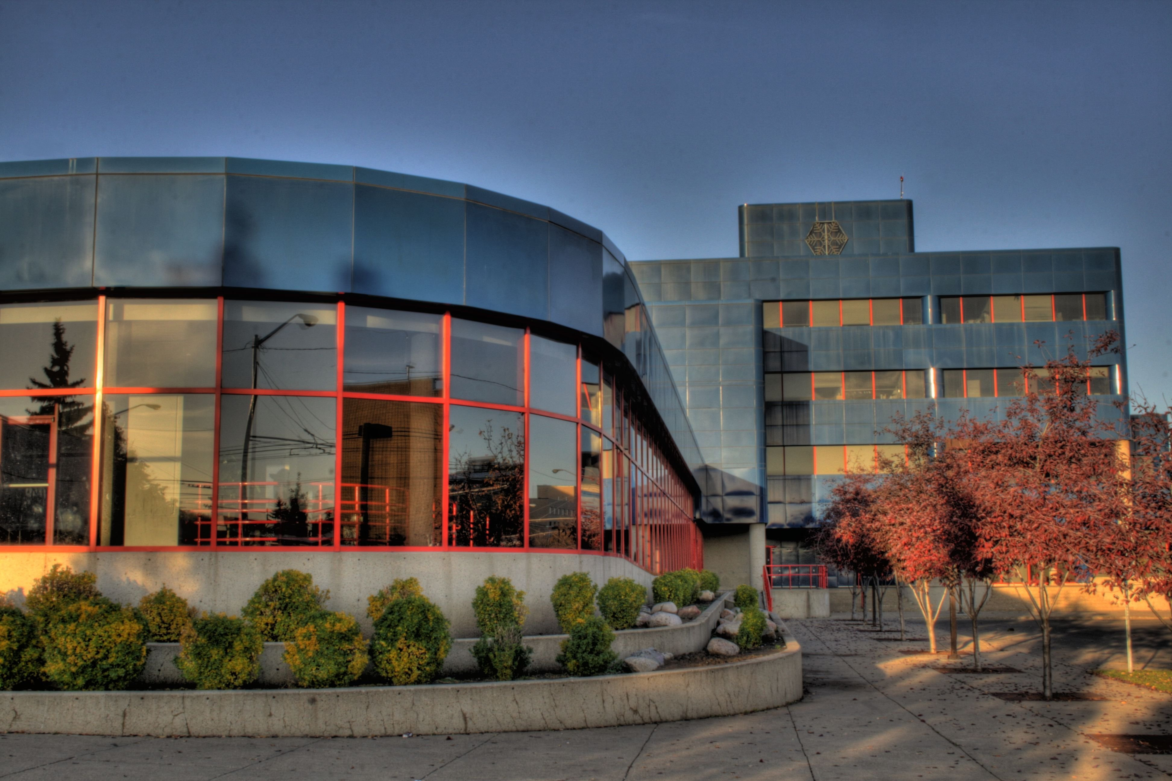 Headquarters of the Edmonton Public School Board in Edmonton, Alberta, Canada.